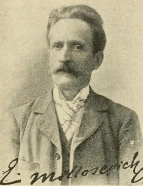 Portrait of the Italian astronomist Elia Millosevich. In "Illustri italiani contemporanei" by Onorato Roux (Firenze, 1908)